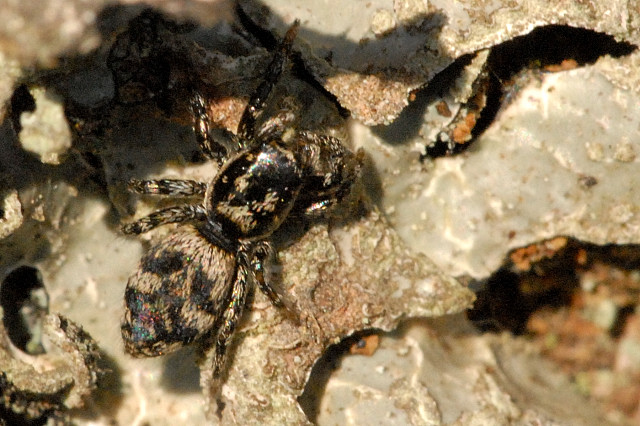 Salticus cingulatus from Commanster, Belgian High Ardennes .